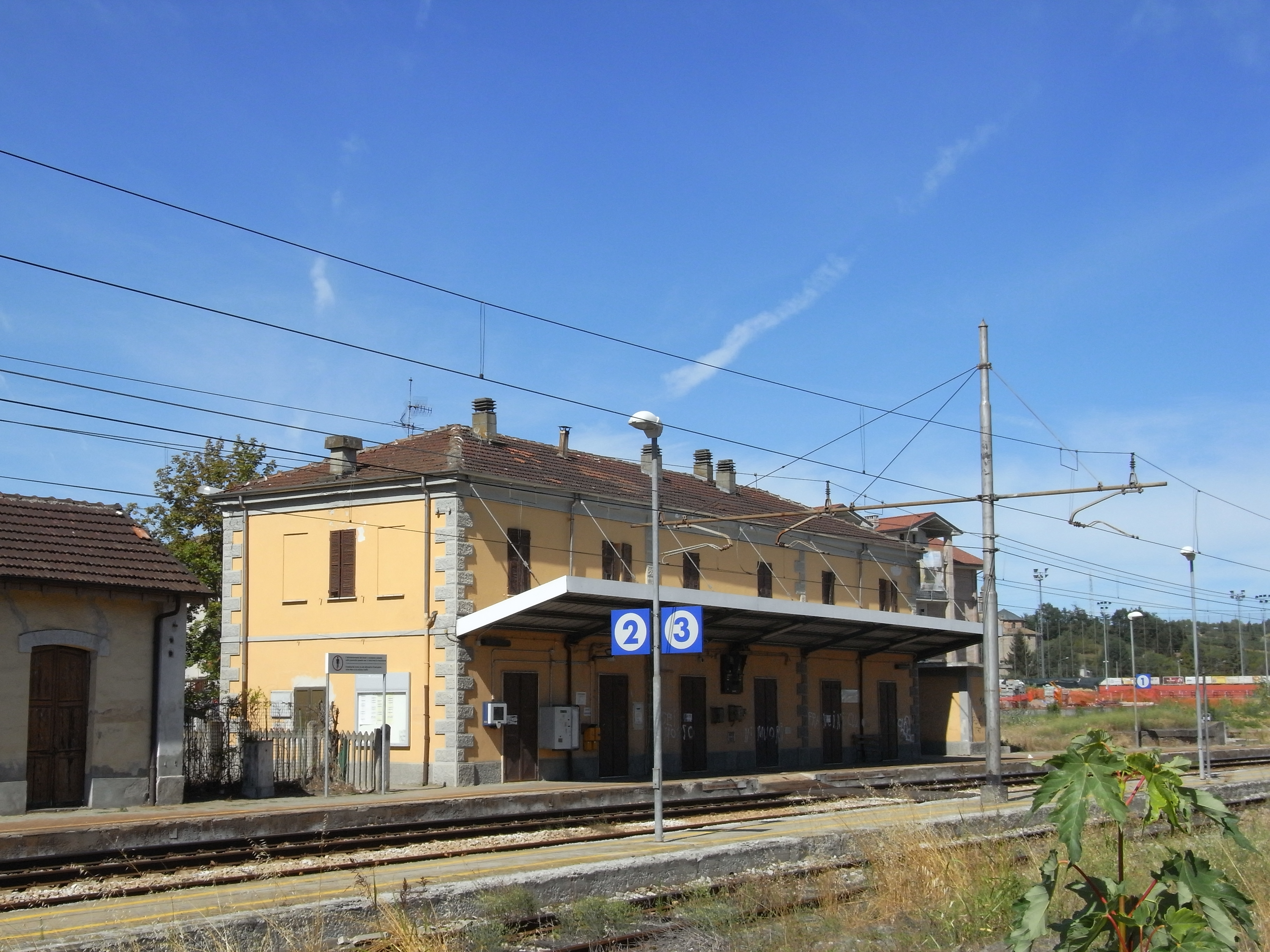 The station of Bistagno (Bormida Valley, Piemonte, Italy), on the Savona-Alessandria track. 24.7.2011